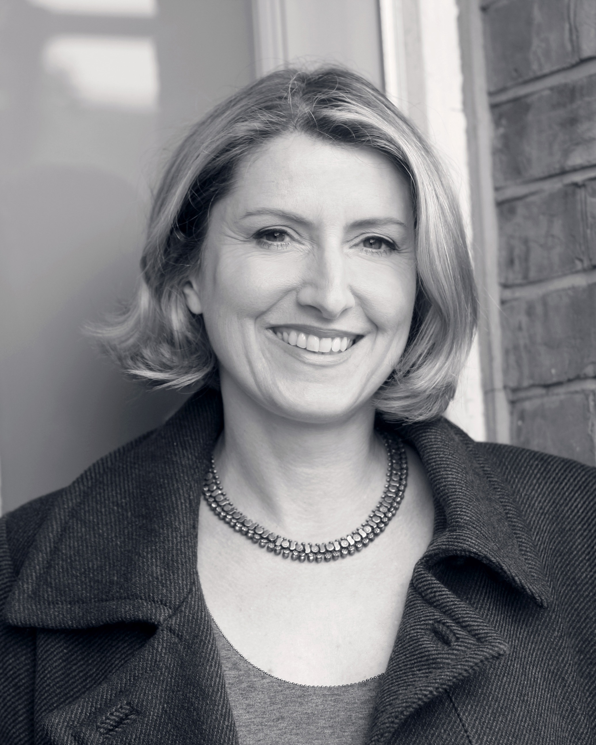 Writer Isabel Ashdown, by photographer Natalie Miller, 2014